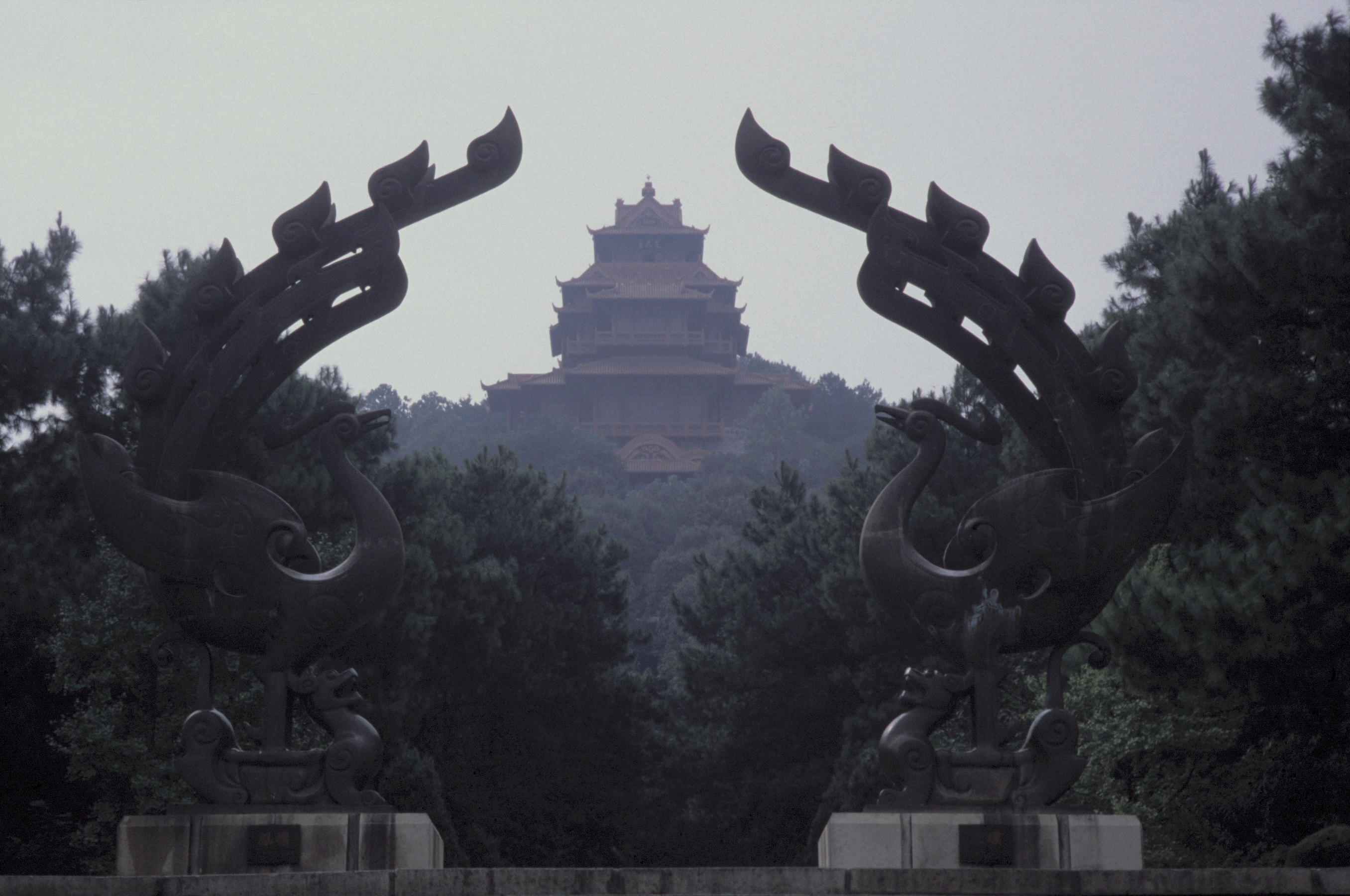 Chu Tiantai in Wuhan, China